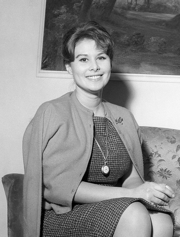 Marisa Allasio, the famous Italian cinema actress, shot in the Villa Ada lounge, the dwelling she took after marrying, at just 22 years, the count Pier Francesco Calvi of Bergolo, the son of the eldest daughter of King Vittorio Emanuele III of Savoy. Rome (Italy), 1959.